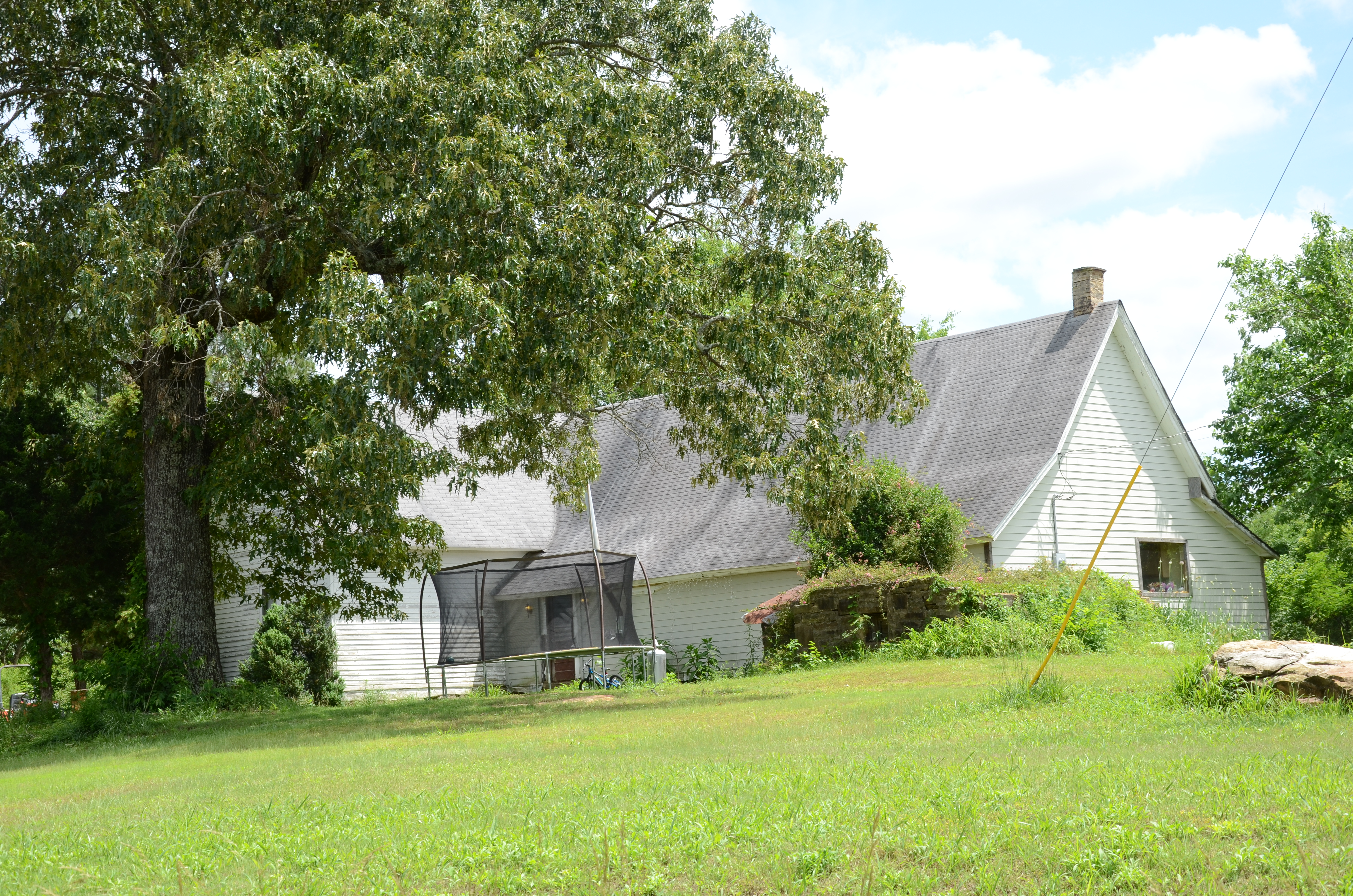 Jessie Abernathy House This is how the house appears from the road. The front elevation of the house actually faces into the wooded area and is not visible without walking up onto the property.